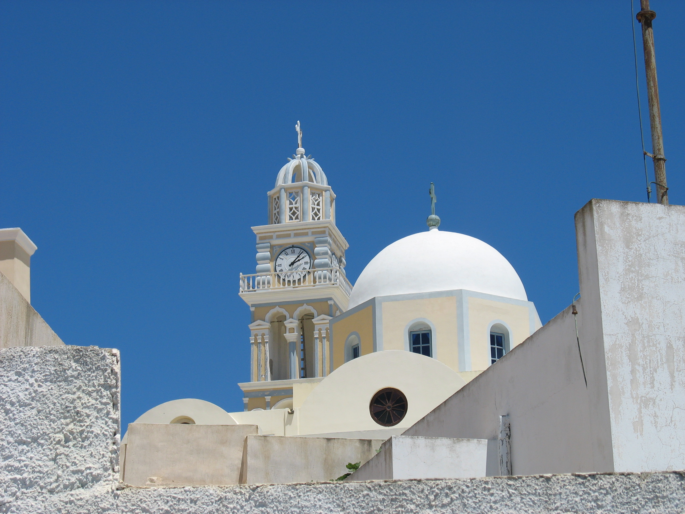 Catholic cathedral St John the Baptist, at Fira, city of Santorini island, Greece.